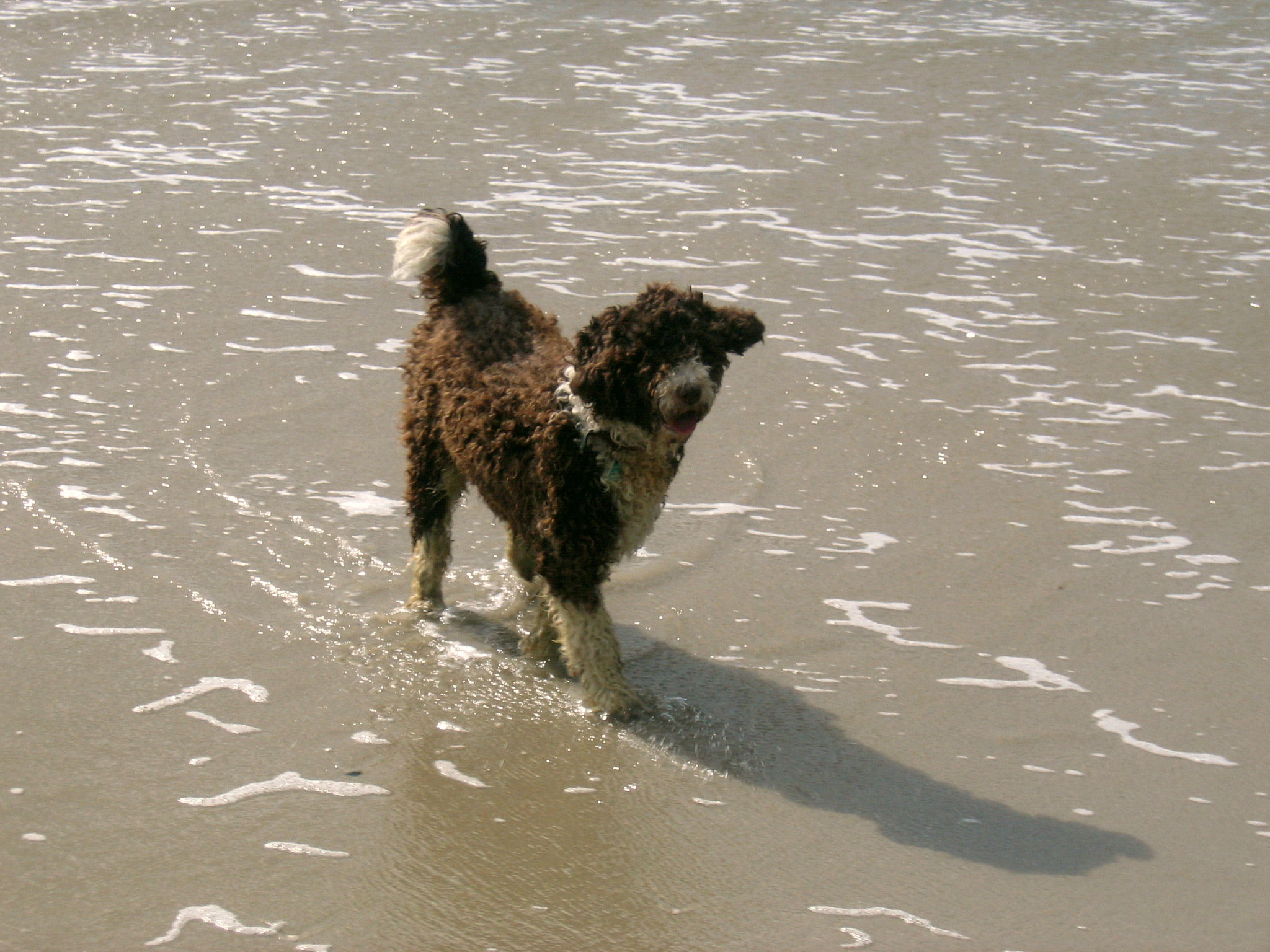 a spanish waterdog (Perro de Agua Español) at the seaside.